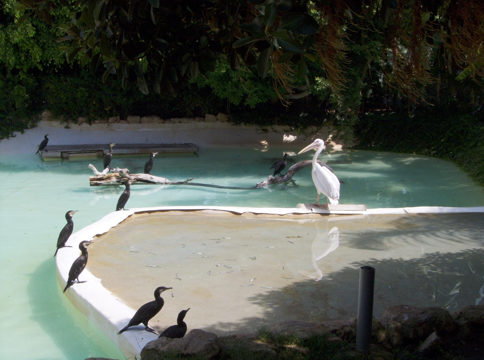 Pelican and other birds in lagoon of Selwo Marina, Benalmadena